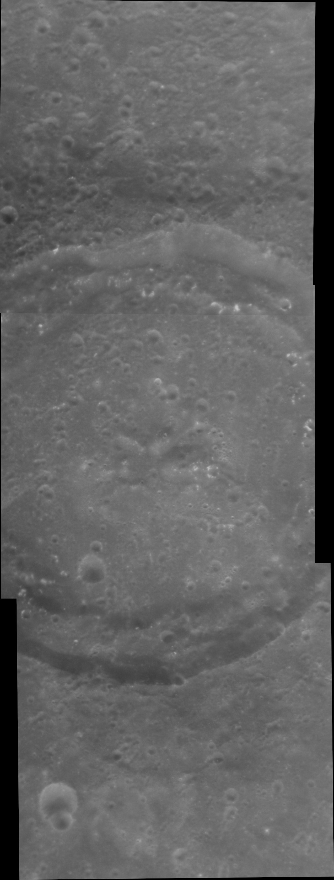 Munch crater on Mercury. Mosaic of MESSENGER Narrow Angle Camera images (EN0218246341M, EN0218246345M, EN0218246349M). Approximate north is up. Width of image is approximately 39 km. Statistics for the center image: Emission Angle: 1.5 Incidence Angle: 40.8 Latitude: 40.5 Longitude: 153.0 Phase Angle: 41.3